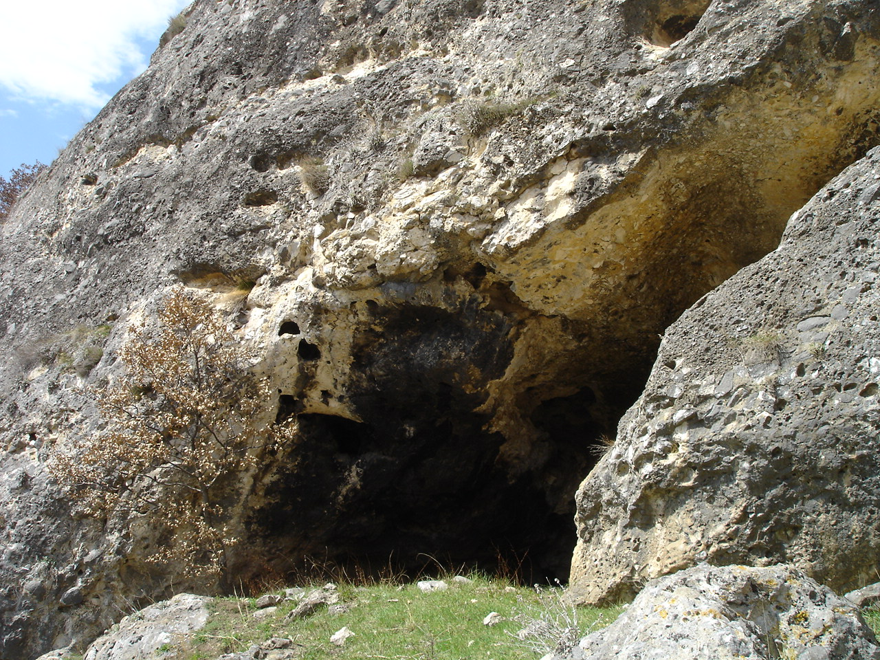 Melnička Cave in the region of Mariovo, Macedonia